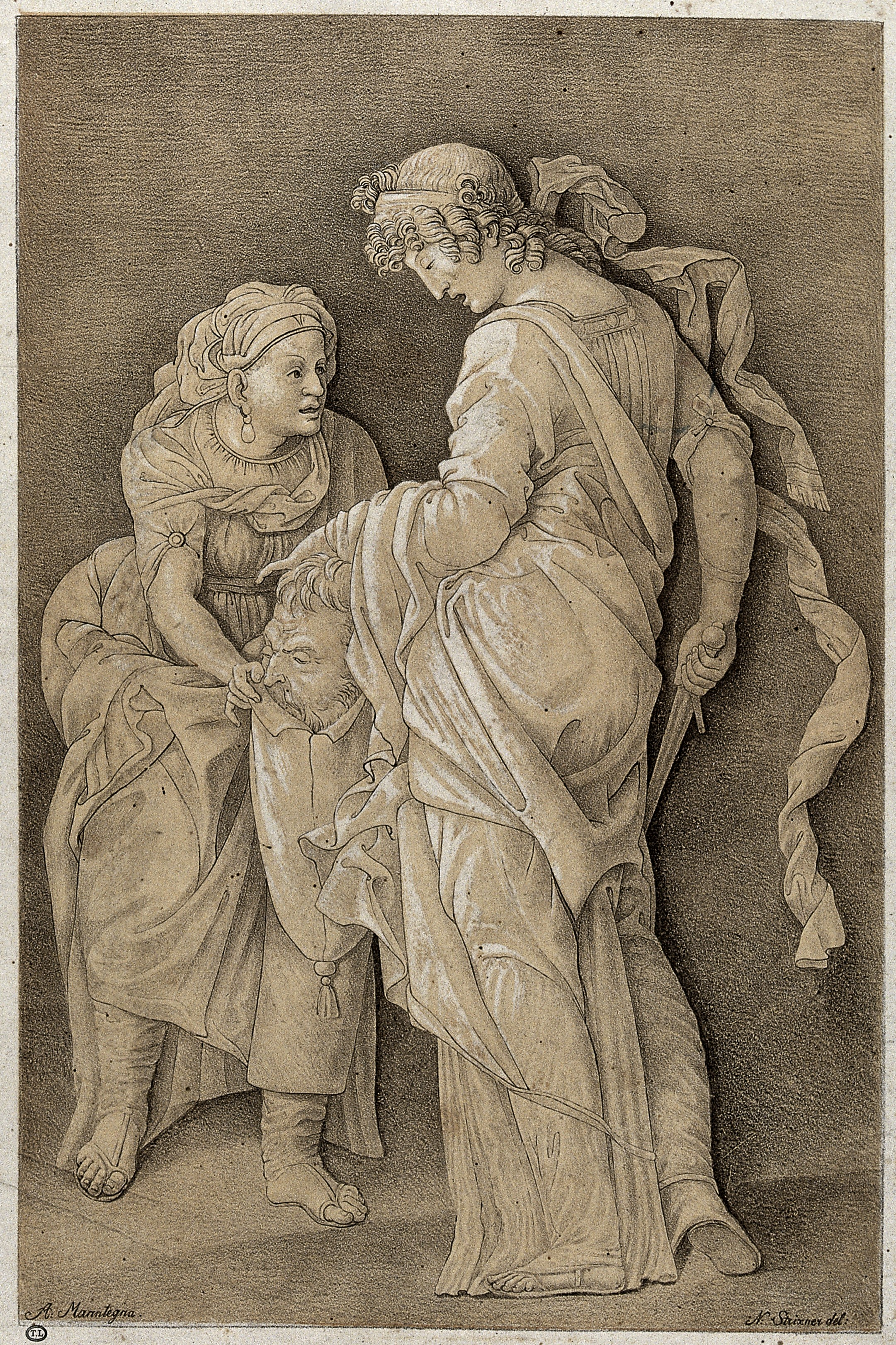 Judith is putting the head of Holofernes in a bag held by her servant. Iconographic Collections Keywords: Johann Nepomuk Strixner; Andrea Mantegna